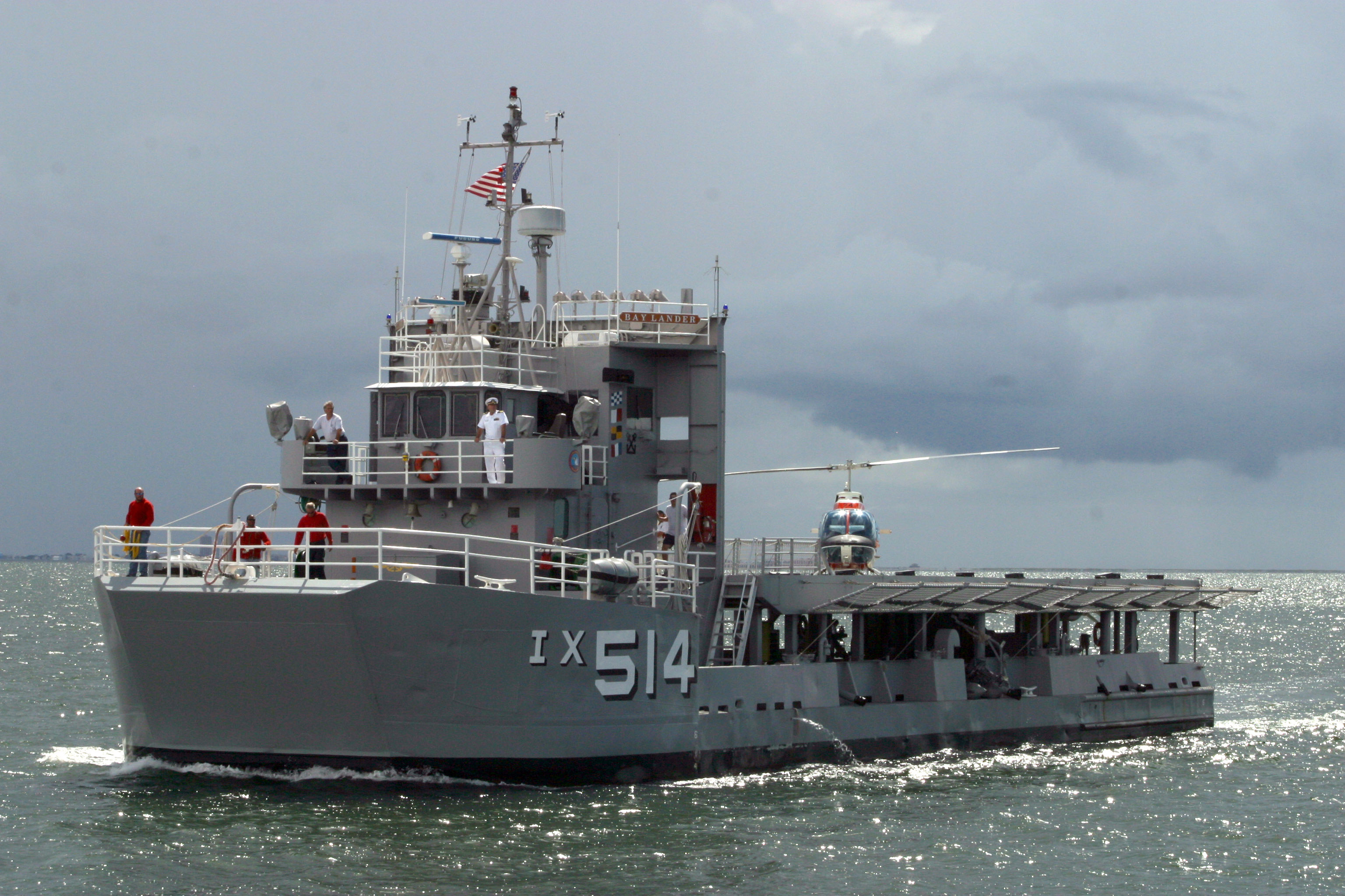 Pensacola Bay (Aug. 25, 2006) - The Naval Air Station (NAS) Pensacola-based Navy Helicopter Landing Trainer (HLT) IX-514 transports a TH-57 helicopter from NAS Whiting Field. The helicopter, which is crewed by student pilot Navy Lt. j.g. David Dostal and instructor Navy Lt. Teresa Ferry recently made the 100,000th consecutive accident-free landing aboard the HLT IX-514. U.S. Navy photo by Michael O'Connor (RELEASED)